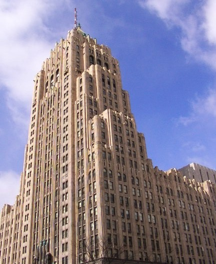 The famous Fisher Building in Detroit, home to one of the first radio stations in United States, WJR, and to the headquarters of Detroit Public Schools.